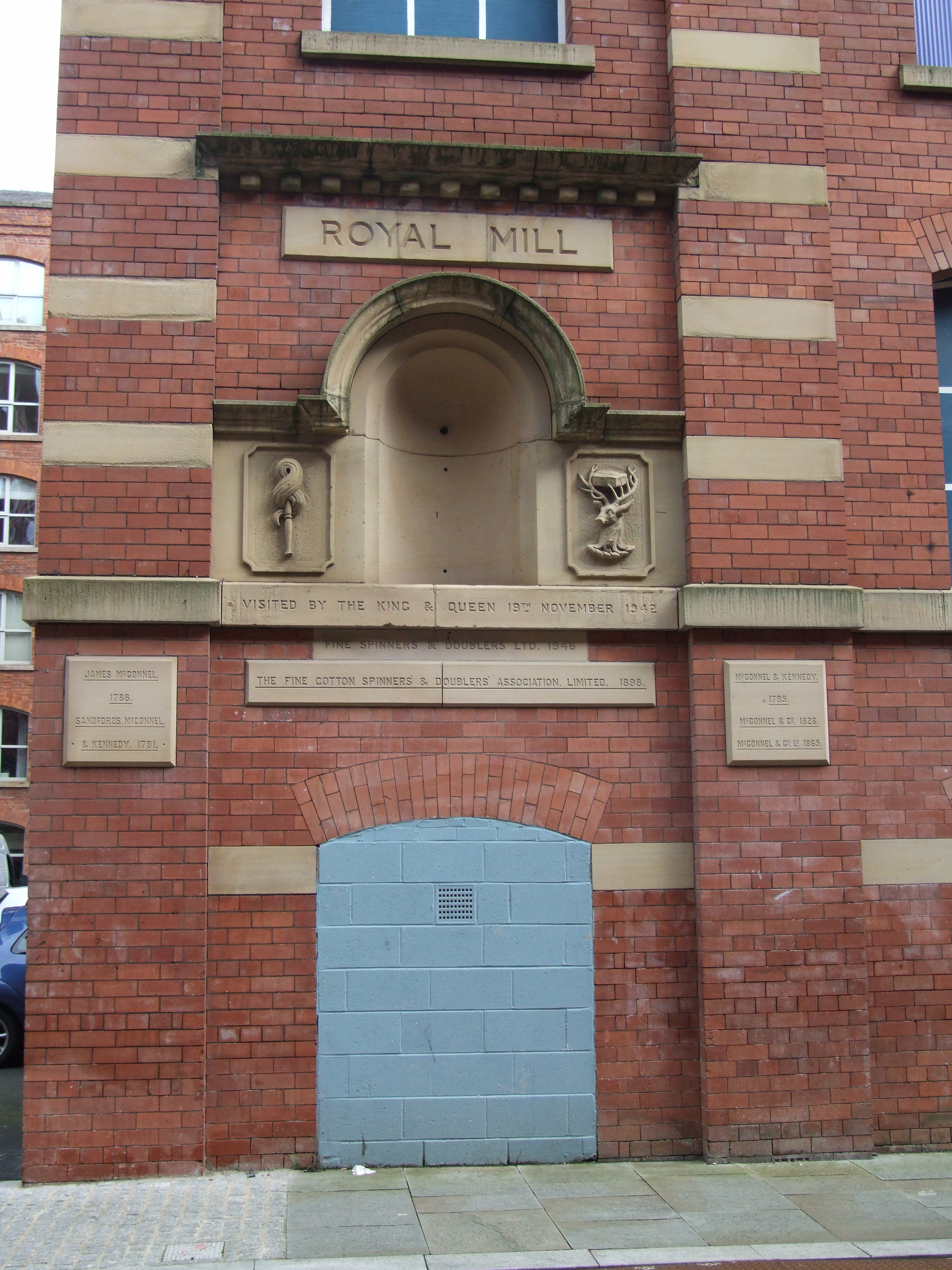 The first cotton mills were built in Ancoats as early as 1790. Royal Mill